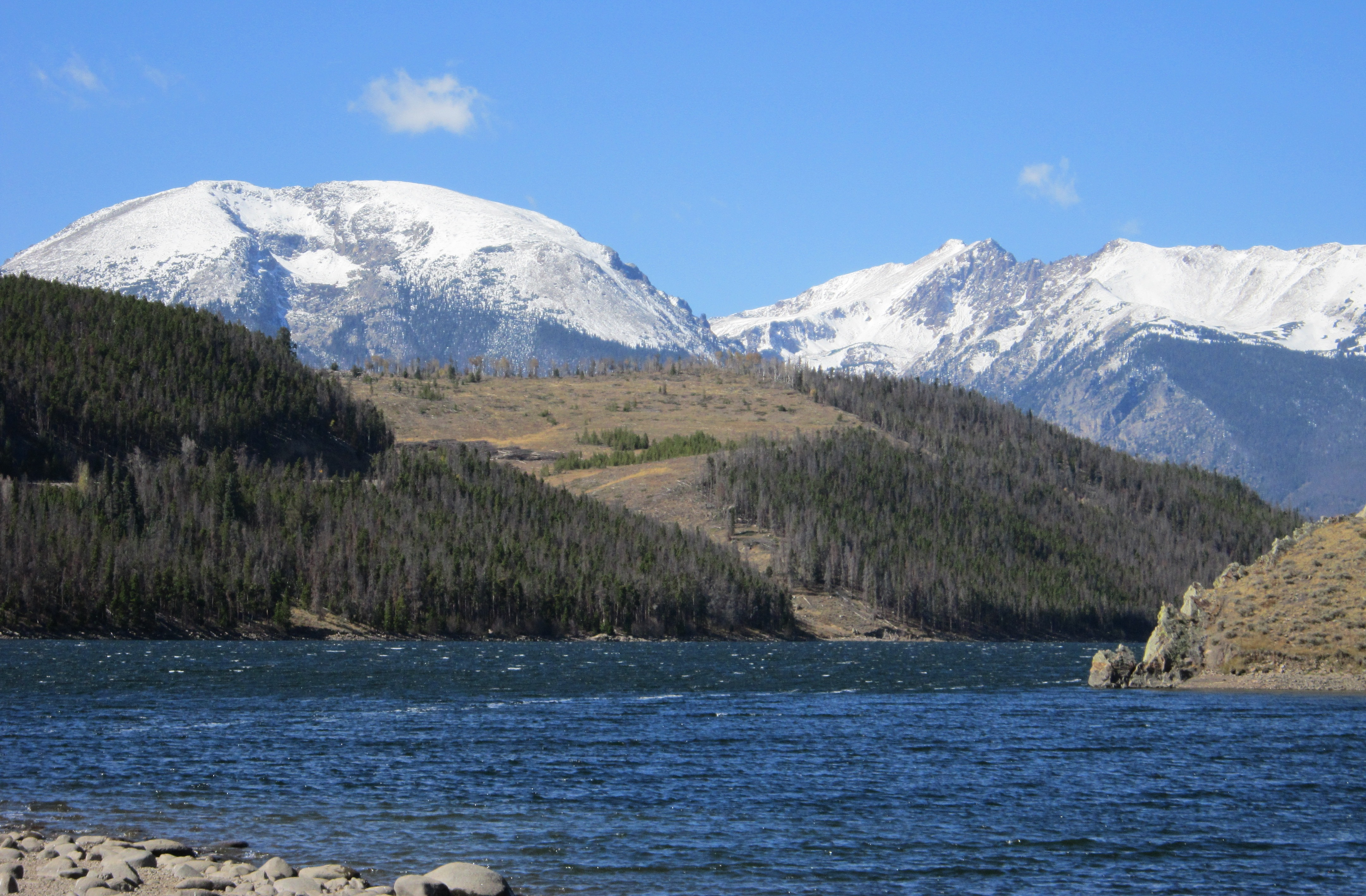 Lake Dillon